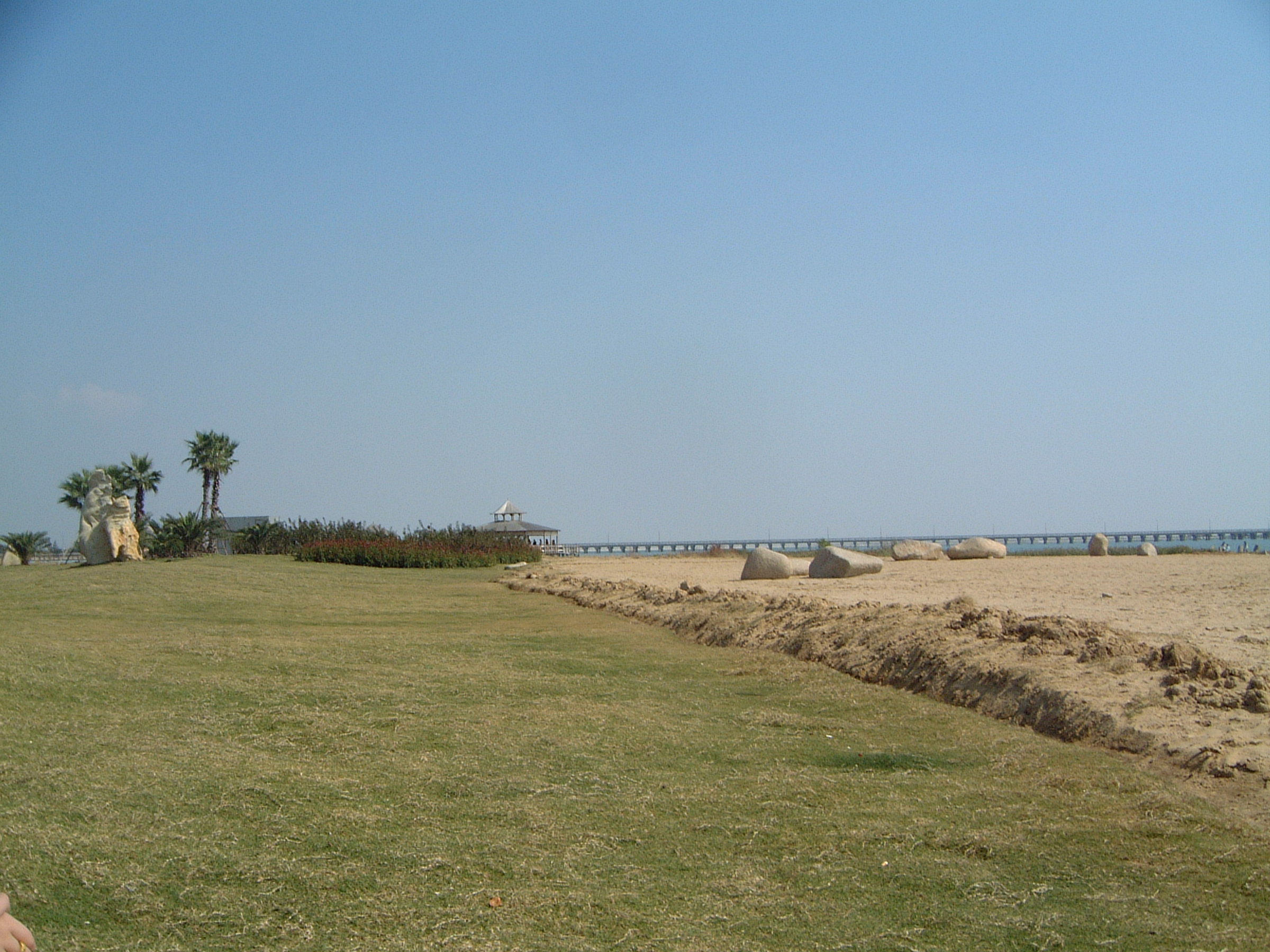 Jinshan City Beach 金山城市海滩